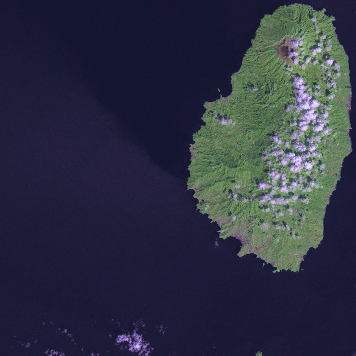 Satellite image of Saint Vincent Screenshot from NASA World Wind, OnEarth WMS global mosaic pseudocolor layer.